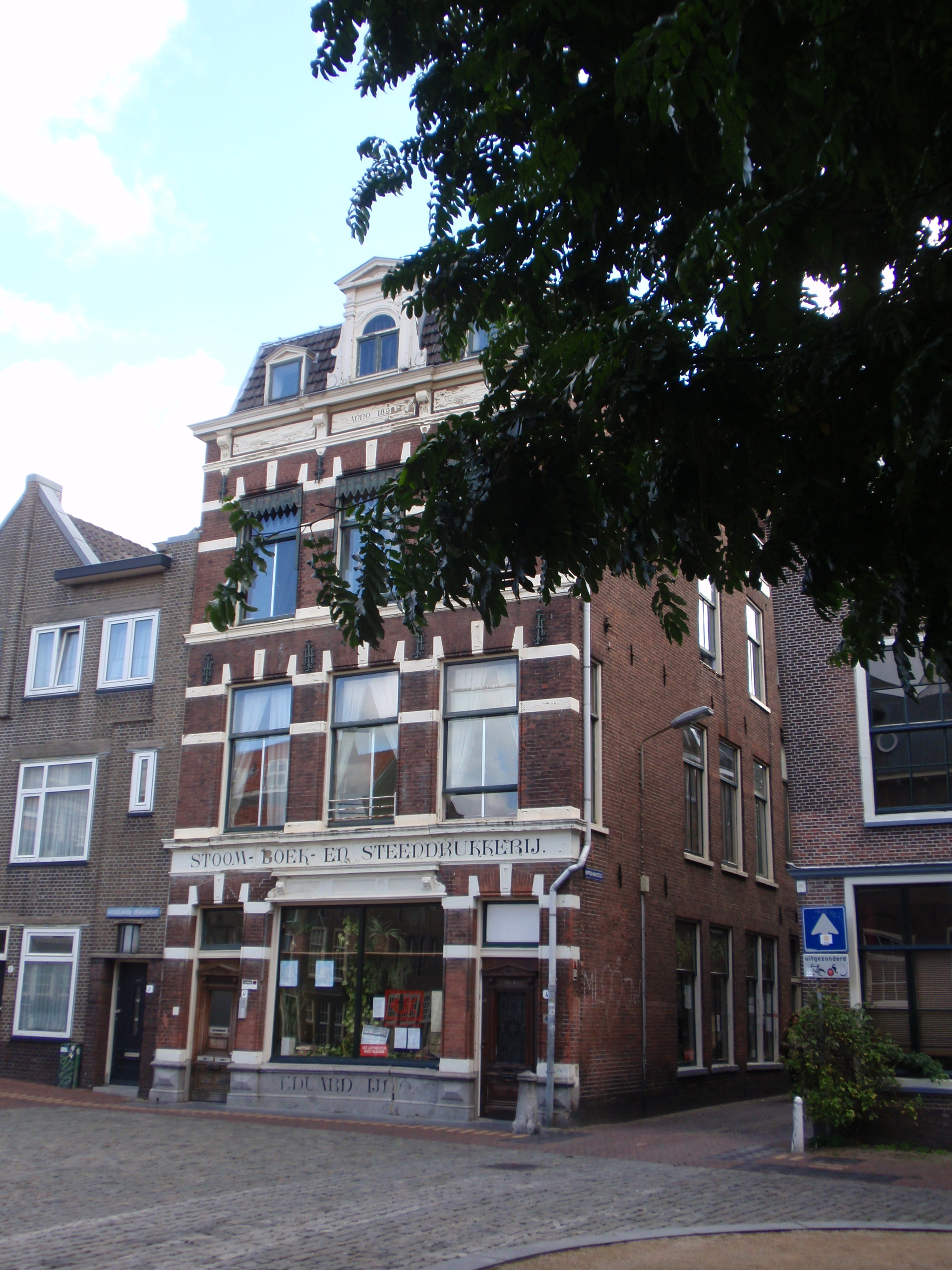 Vrijplaats Koppenhinsteeg as seen from the Hooglandse Kerkgracht in Leiden (NL)